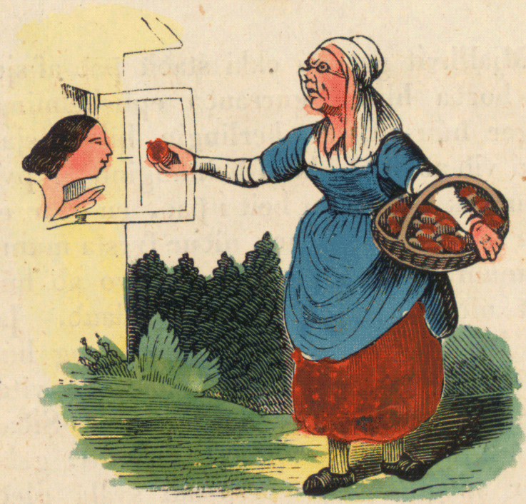 An illustration from page 23 of Mjallhvít (Snow White) an 1852 icelandic translation of the Grimm-version fairytale.